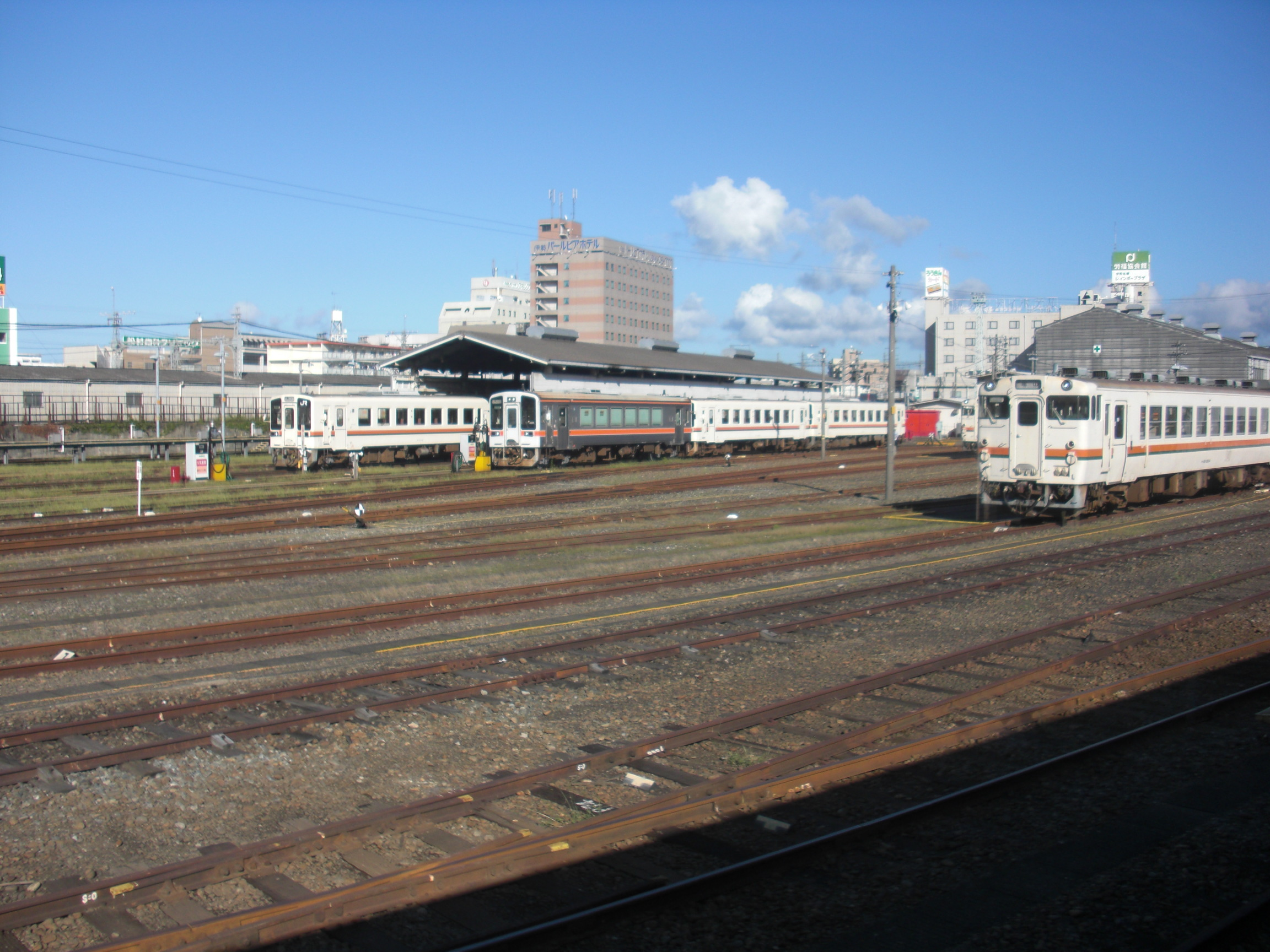 Ise Rail Yard, Central Japan Railway Company